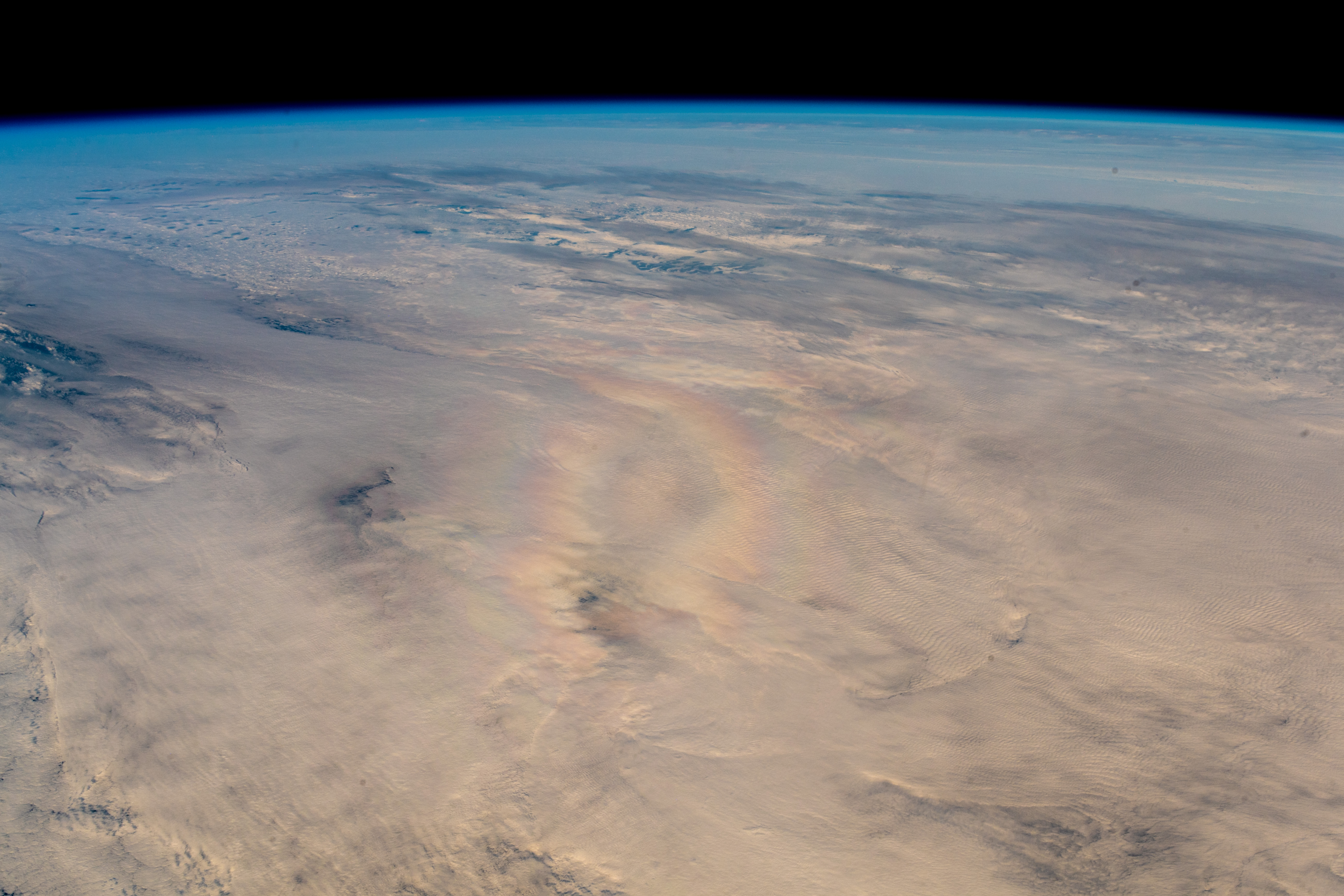 Glory (optical phenomenon) seen from the international space station and photographed on 14 September by German astronaut Alexander Gerst. Surprised to see a pilot's glory from the International Space Station. This optical phenomenon is often visible from airplanes, or when on a volcano looking down into a foggy crater with the sun in the back. Our shadow is (theoretically) right in the middle of the rainbow, but we don't have a core shadow due to our altitude.